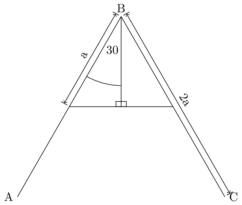 Geometrical dimensions of a yakuapana